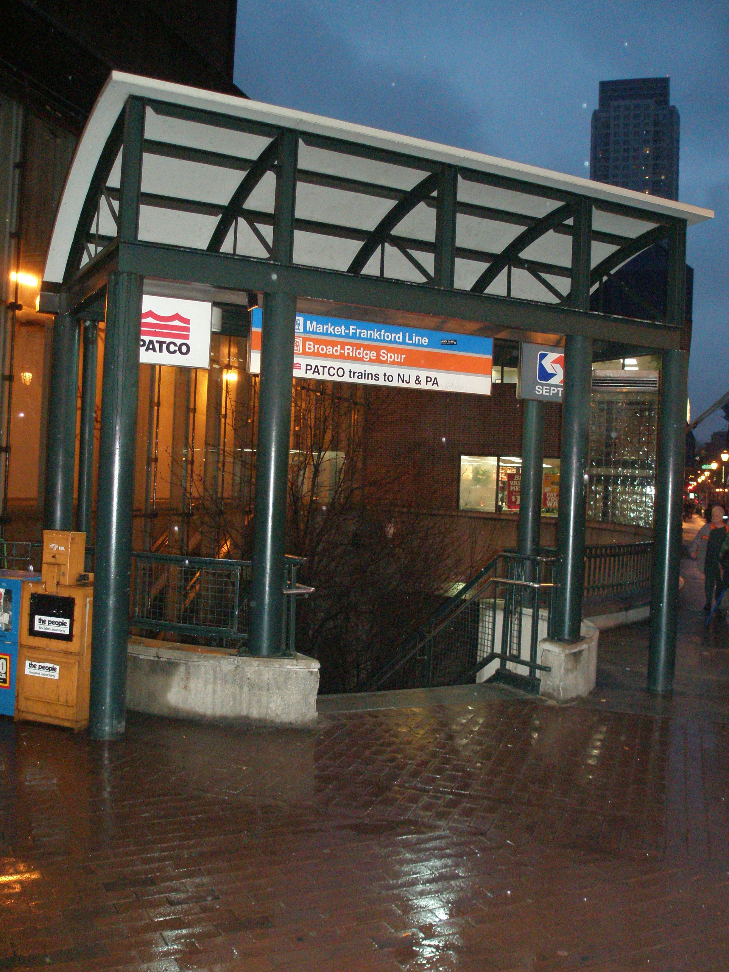 Entrance to 8th Street station in March 2007